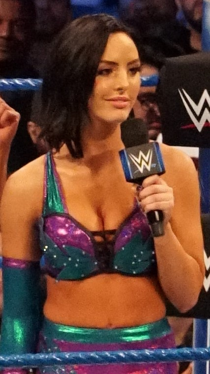 The IIconics interrupting Charlotte Flair during their SmackDown debut, April 2018.